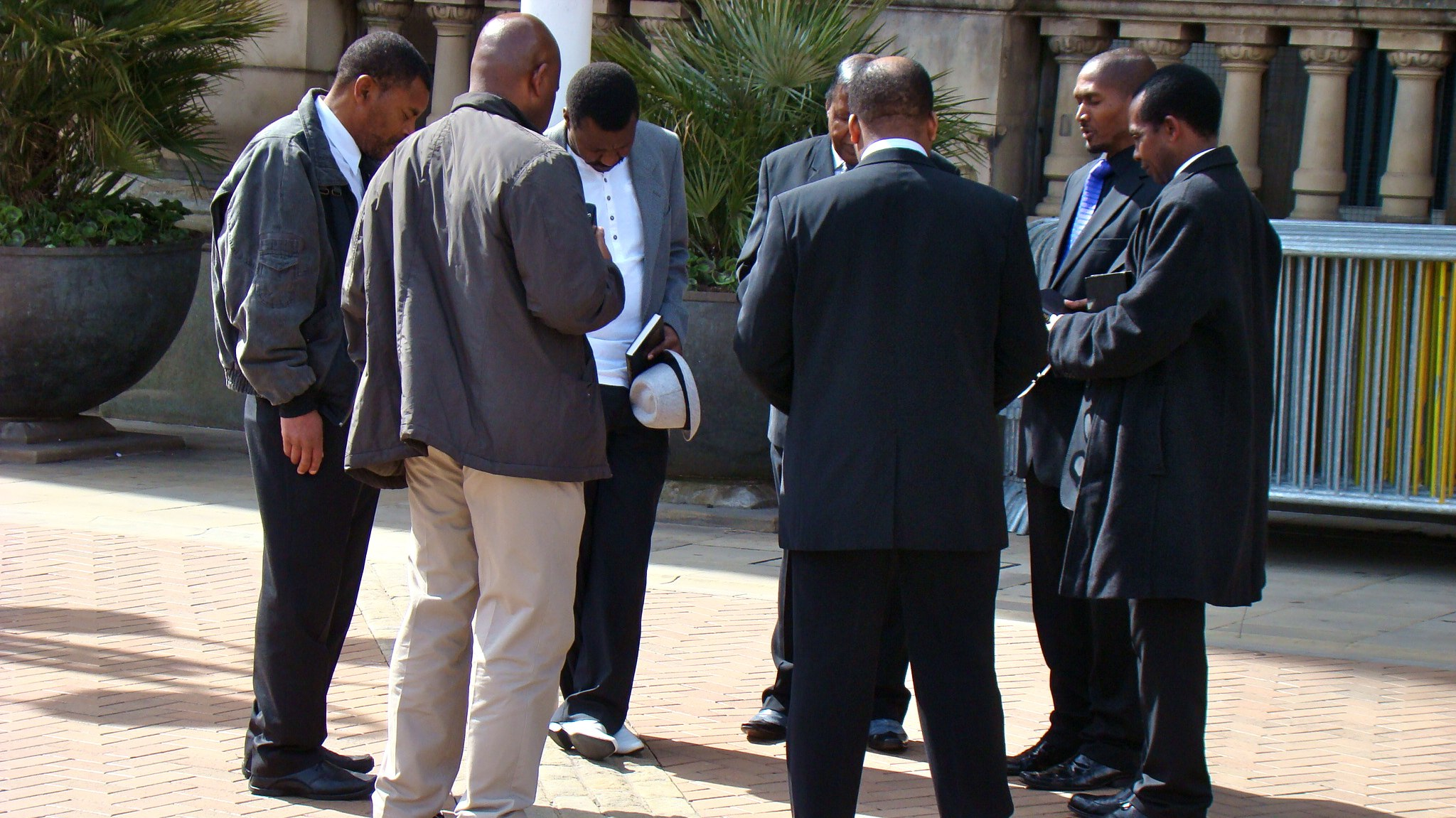 Prayer meeting and hymn singing following Gay Pride parade